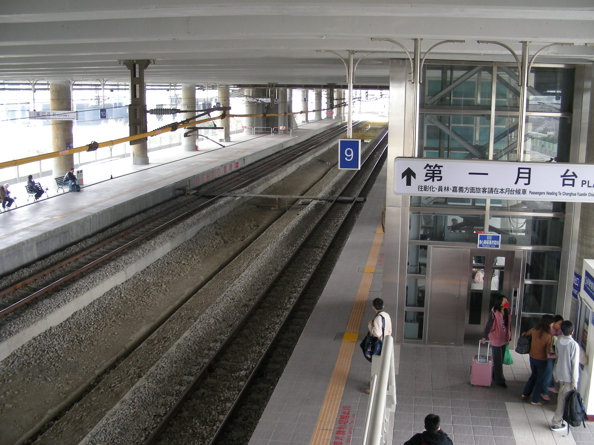 Platform 1, New Wurih Station, Taiwan Railway Administration.